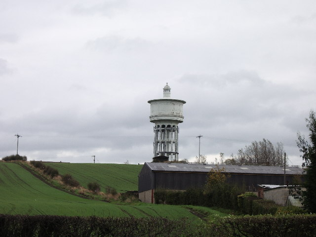 Water Tower. View taken from Owl Lane